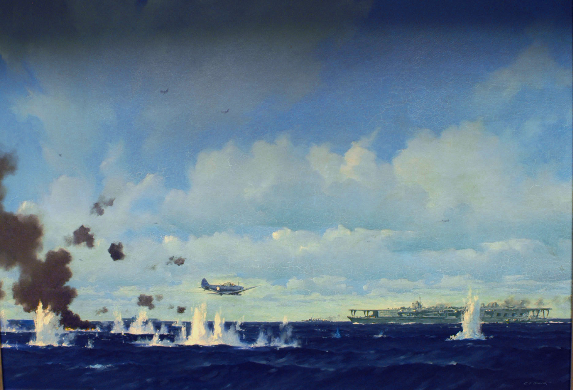 Painting depicting a U.S. Navy Douglas TBD-1 Devastator torpedo plane making an attack against a Japanese aircraft carrier at the Battle of Midway, 4 June 1942.